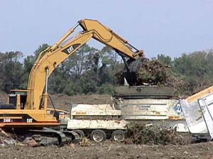 Virginia Beach, VA, September 18, 1998 -- One of four debris sites in Virginia Beach receiving tree debris by truck. The debris is run through chippers and then deposited in mulch piles. Photo by Curt Nellis, VDES